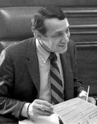 Narrow crop of a photo of Harvey Milk, for use in Portal:Biography